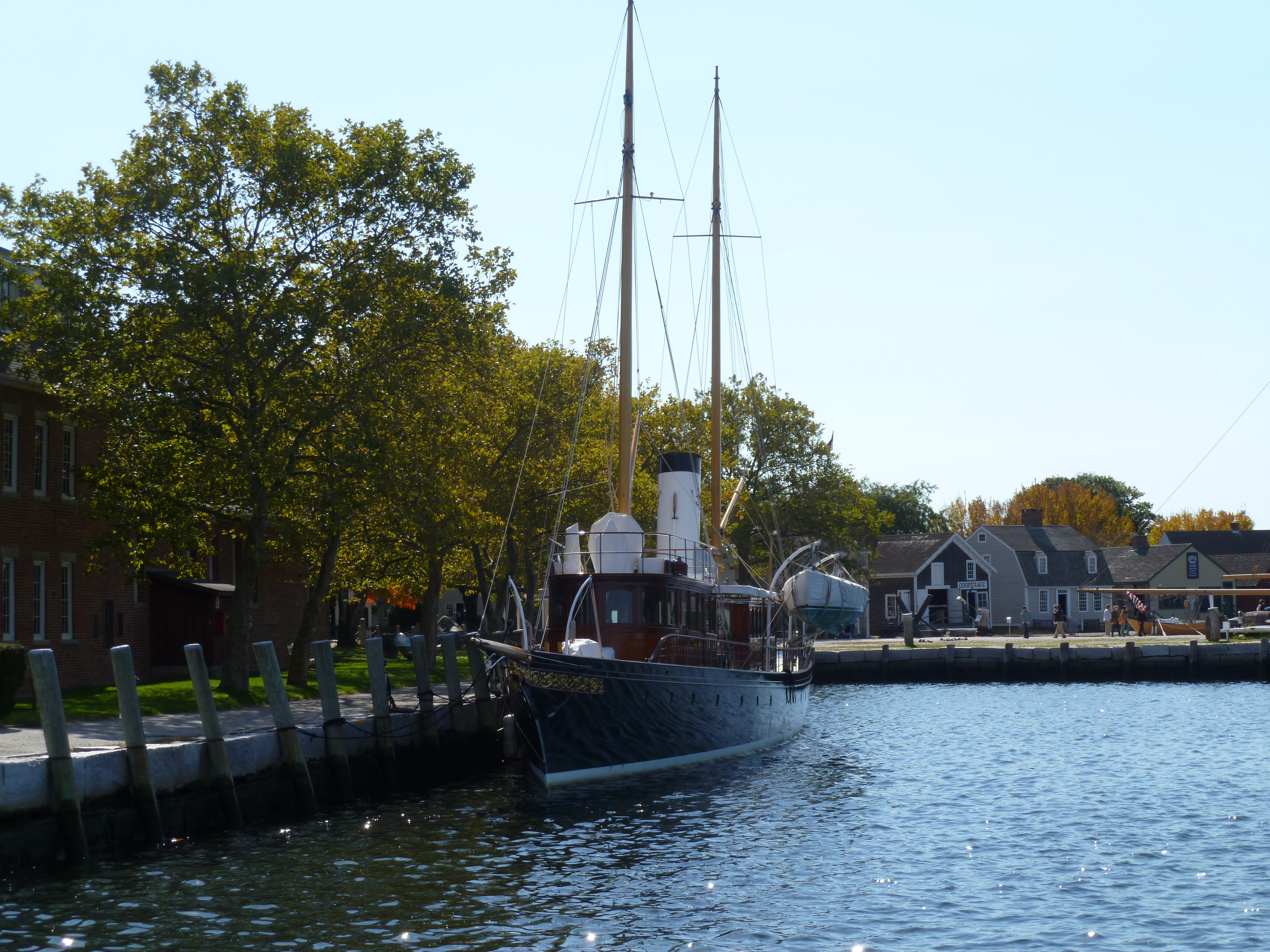 Steam yacht Cangarda at Mystic Seaport, Connecticut, in October, 2010.